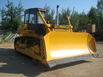 Buldozer TM-10